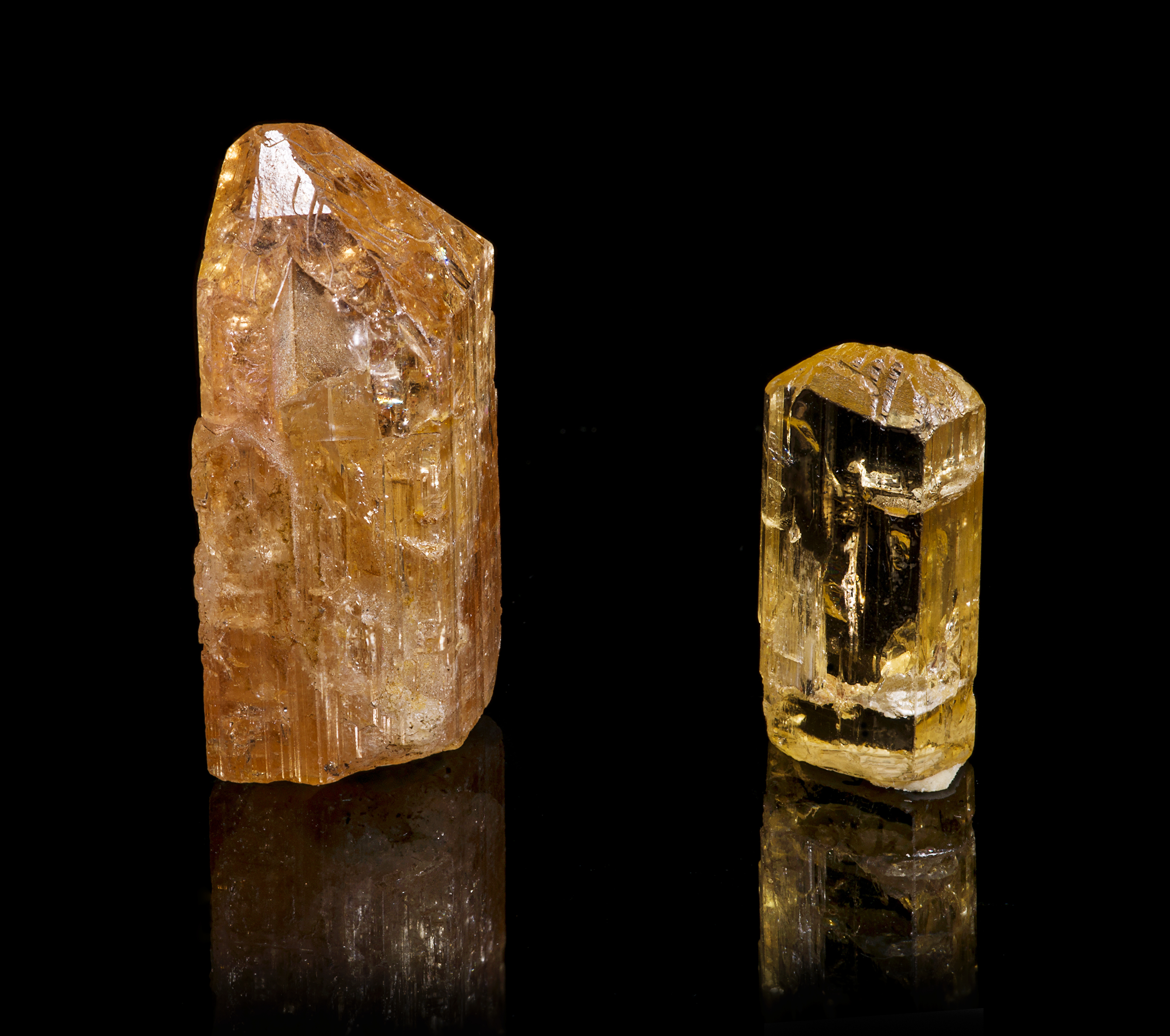 Imperial Topaz Locality : Vermelhão Mine, Saramenha, Ouro Preto, Minas Gerais, Southeast Region, Brazil Size : 30x15 mm and 21x10 mm